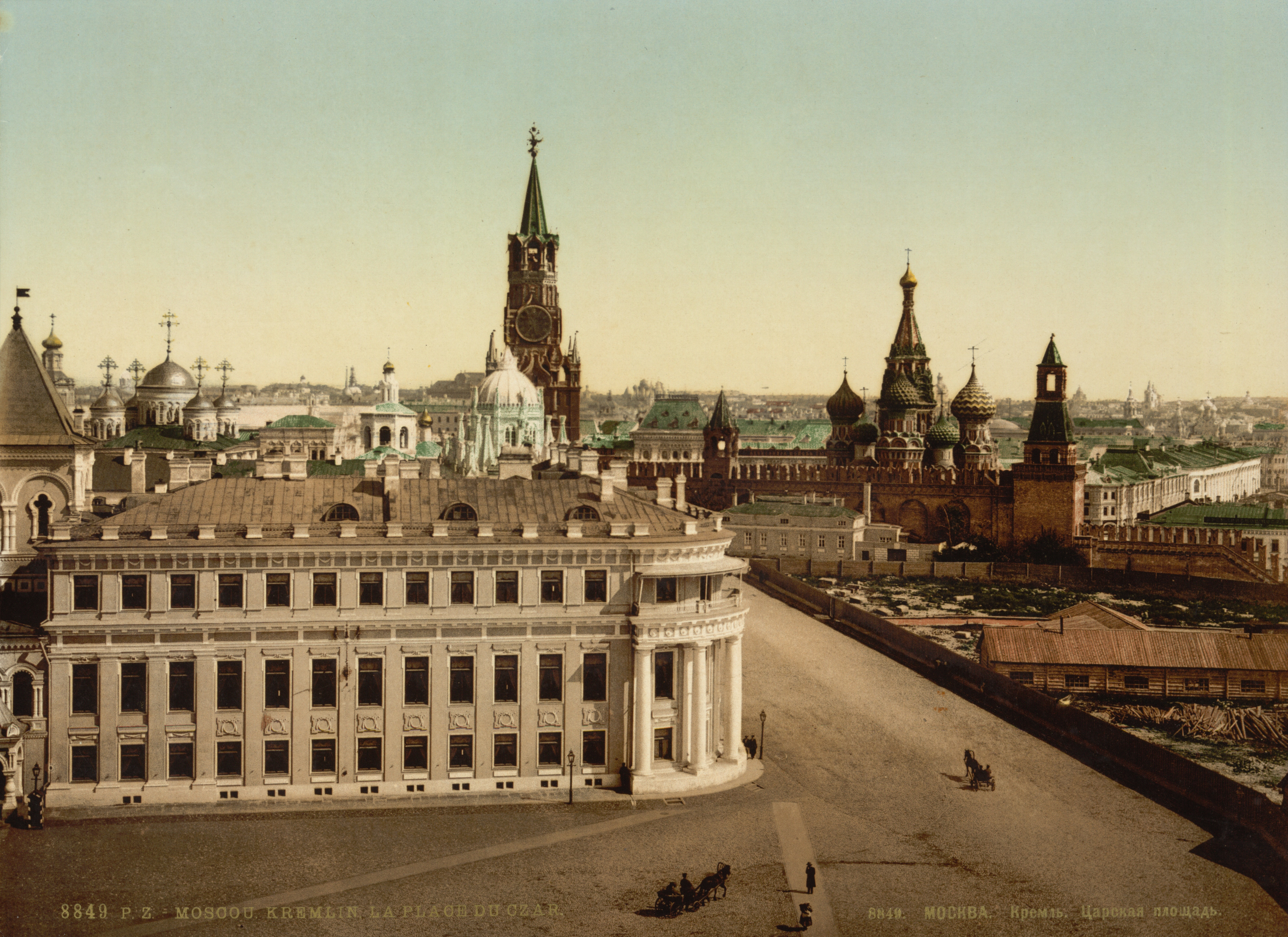 Pre-revolutionaty russian postcard of view of Tsarskaya square in the Kremlin from Ivan the Great bell tower